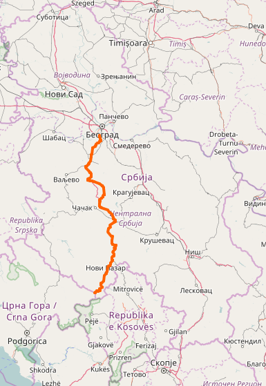 OpenStreetMap of State Road 22 in Serbia.